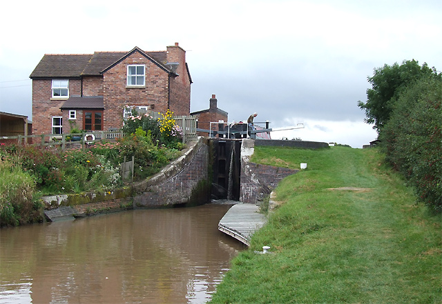 Minshull Lock and Cottage, Shropshire Union Canal, Cheshire The water in the lock has raised a narrowboat by eleven feet (3.35 metres). Three of the four locks on this branch exceed eleven feet in depth.